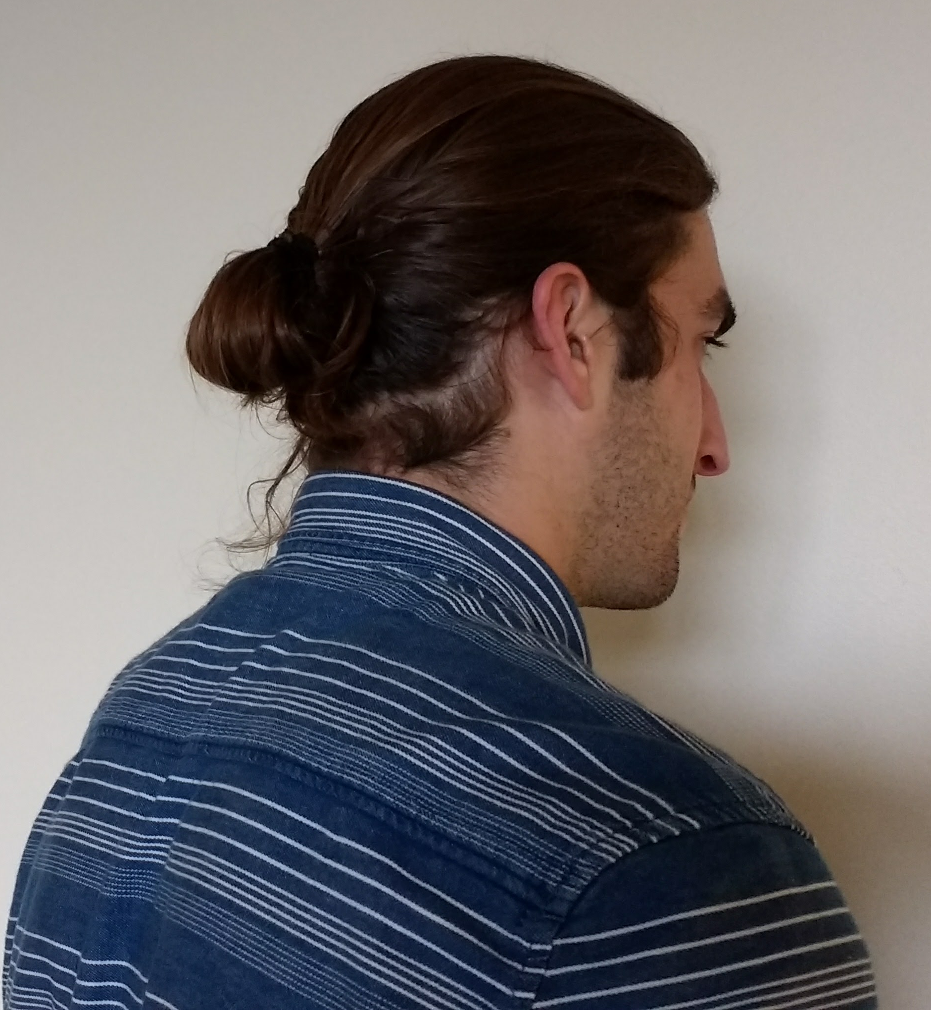 A typical modern style man bun.